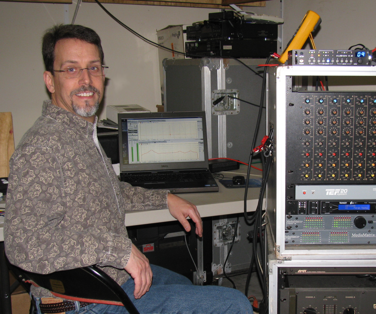 Charles Emory "Charlie" Hughes II pictured in 2013 with audio test and analysis equipment.